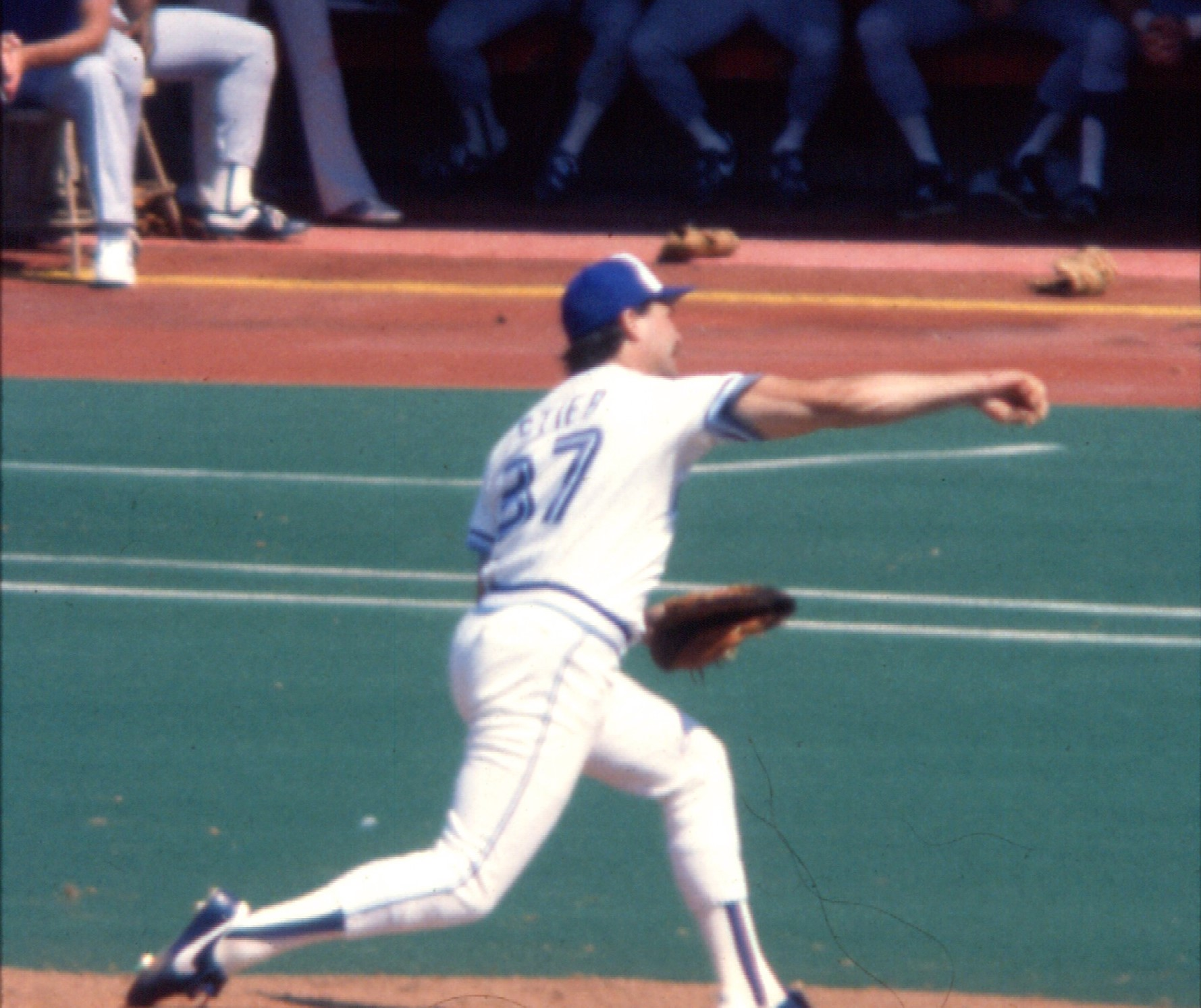 Dave Stieb pitching in Toronto, Canada in 1985. Note on Flickr: "I don't remember the Blue Jays opponent that day." (According to the Baseball Almanac, it was the Chicago White Sox).